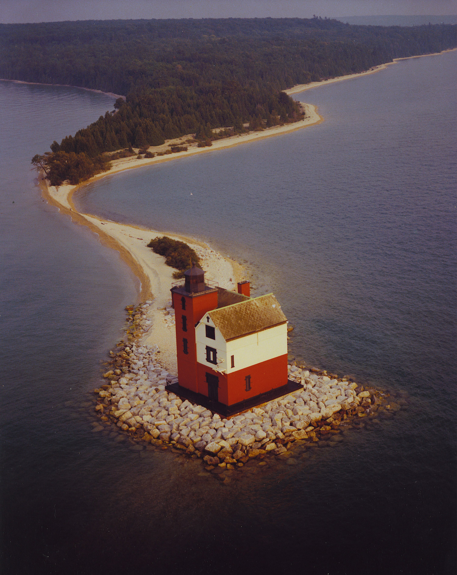 The Round Island Lighthouse on Round Island in the Mackinac Straits of Michigan, USA. The lighthouse was in service from 1895 until 1947 when it was decommissioned. The house was relit by a private foundation in 1996 and is now on the National Register of Historic Places.